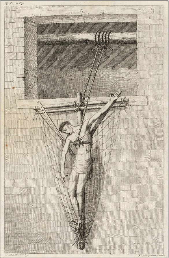 The artwork represents the self-crucifixion attempt of Mattio Lovat in 1806.